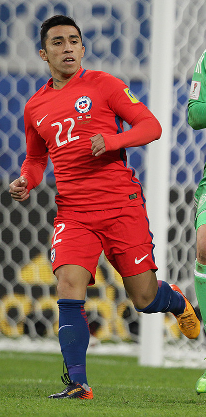 Chile - Germany, 2 Jul 2017